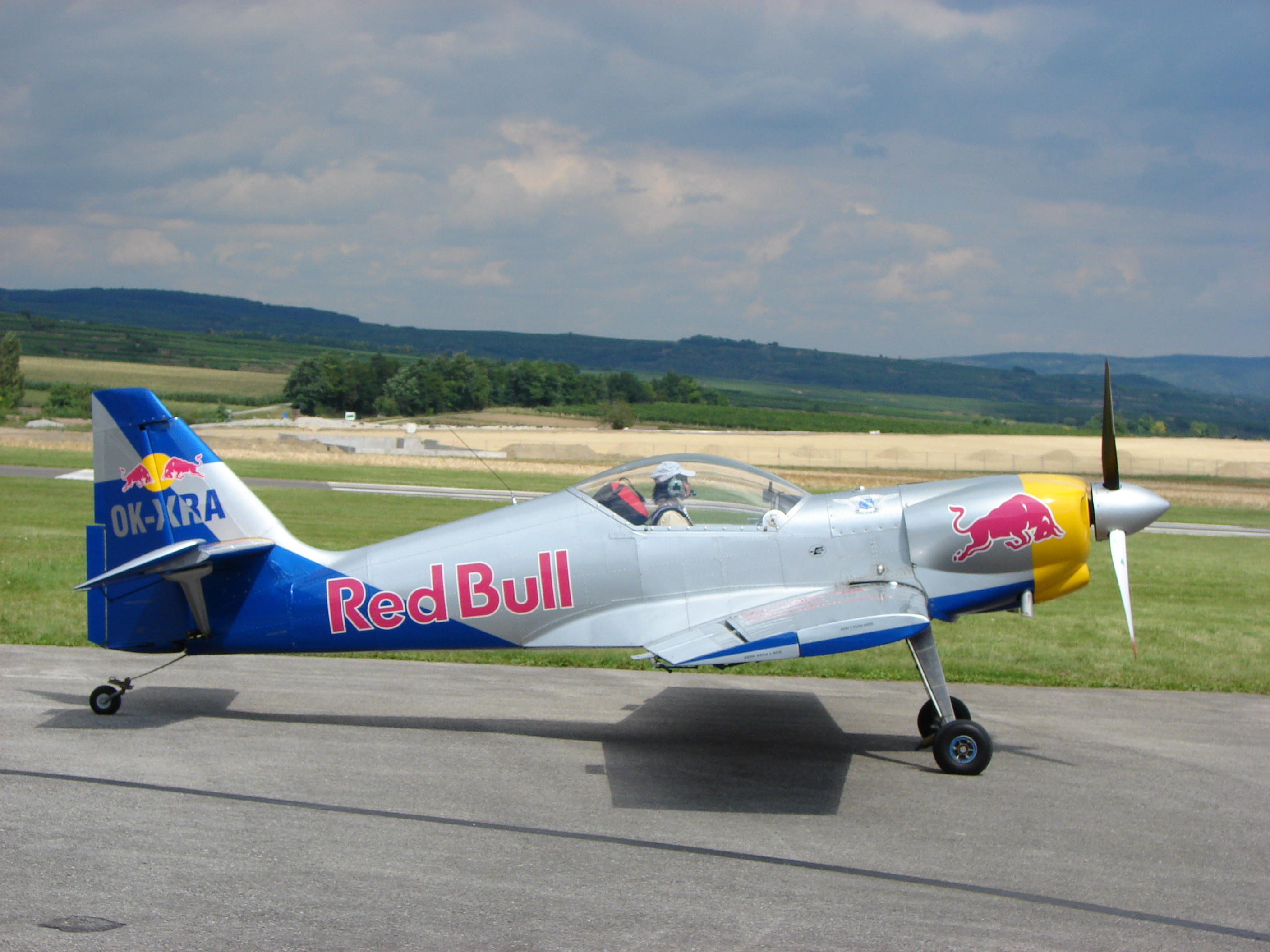 Flying Bulls Aerobatics Team during an Air Show in Krems, Austria